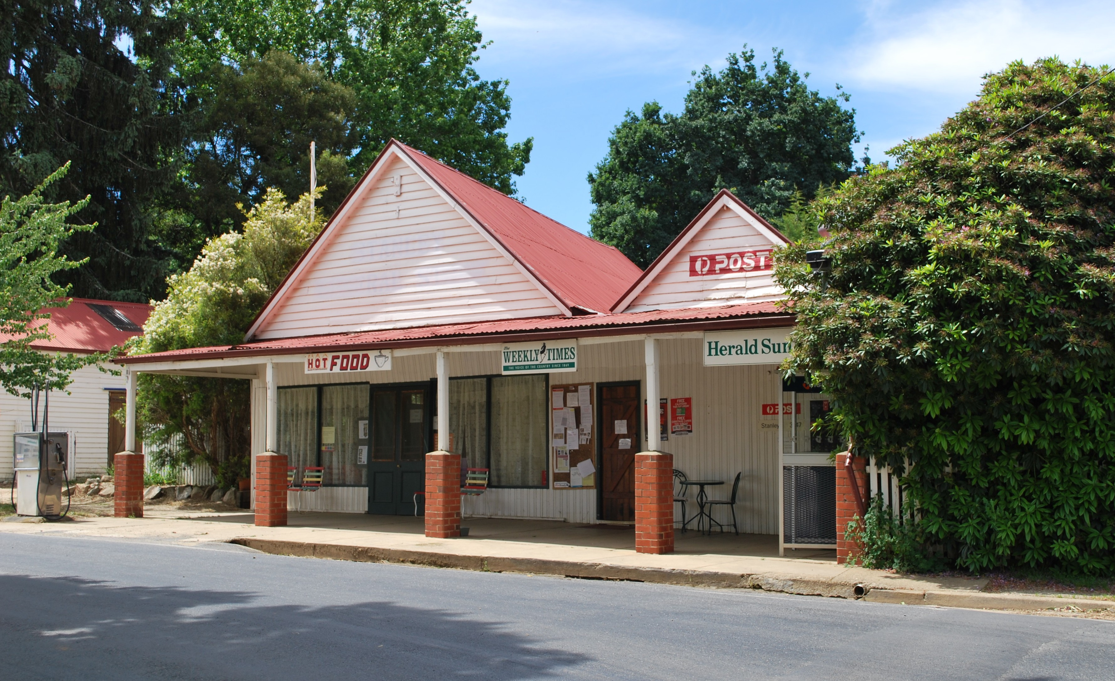 Post office and old general store now home of the Old Store Cafe Stanley, Victoria